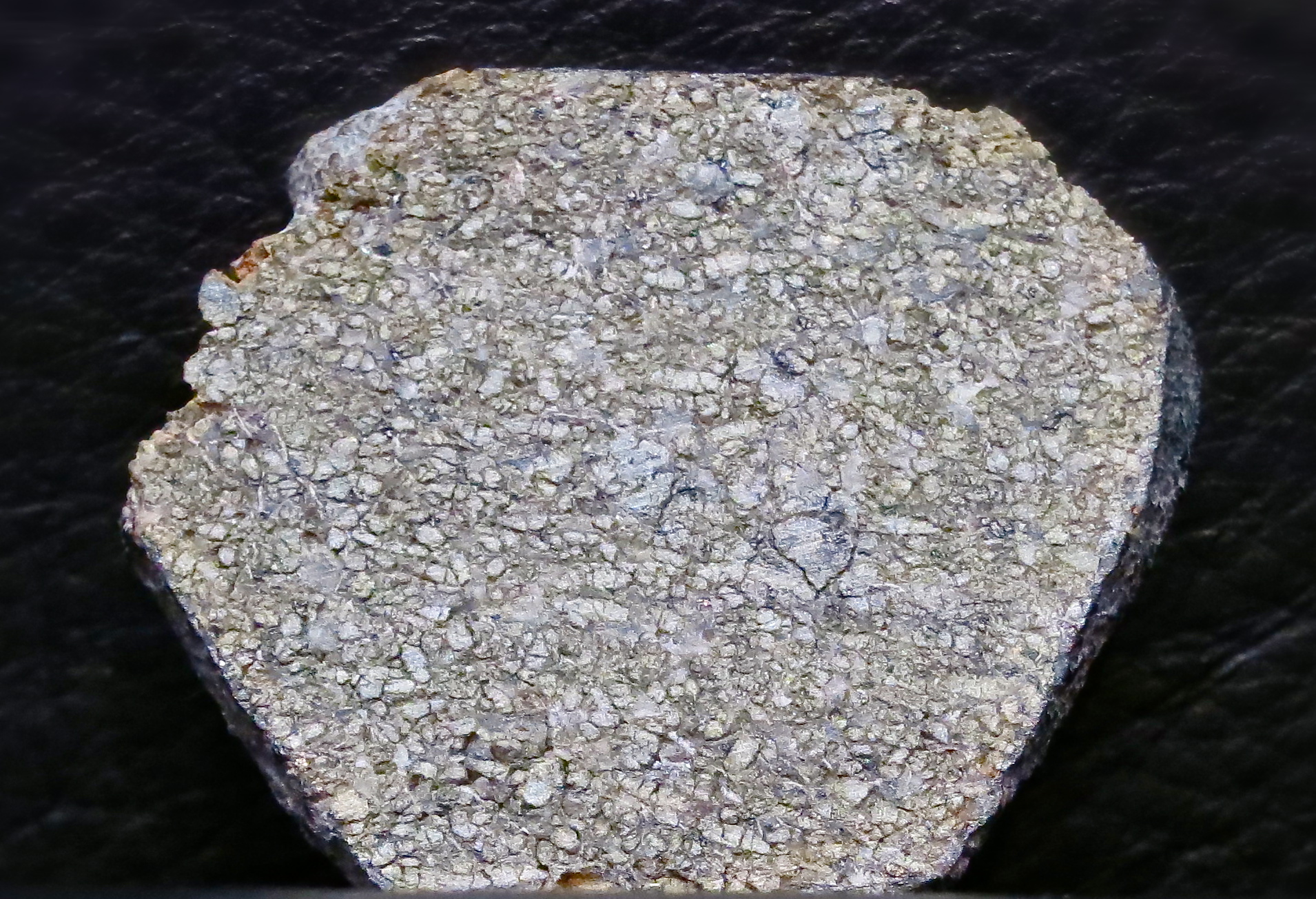 NWA 6963, an igneous Martian shergottite meteorite found in September 2011 in Morocco. It’s quite moving to hold a piece of Mars in your hands... to reflect on its incredible interplanetary journey, and the science that gives confidence as to the origin of this unusual piece of rock. The perimeter exhibits a fusion crust from the heat of entry into the Earth’s atmosphere. It is a fresh sample of NWA 6963, an igneous Martian shergottite meteorite found in September 2011 in Morocco. Meteorites are often labeled NWA for North West Africa, not because they land there more often, but because they are easy to spot as peculiar objects in the desert sands. (It’s like searching for your car keys where the streetlight shines bright). From the geochemistry and various isotopes, we can deduce the origin and transit time of interstellar objects (a bit like Carbon-14 dating for formerly living artifacts on Earth). The 99 meteorites from Mars exhibit precise elemental and isotopic compositions similar to rocks and atmosphere gases analyzed by spacecraft on Mars, starting with the Viking lander in 1976. Compared to other meteorites, the Martians have younger formation ages, unique oxygen isotopic composition (consistent for Mars and not for Earth), and the presence of aqueous weathering products. A trapped gas analysis concluded that their origin was Mars quite recently, in the year 2000. The formation ages of meteorites often come from their cosmic-ray exposure (CRE), measured from the nuclear products of interactions of the meteorite in space with energetic cosmic ray particles. This one is particularly young, having crystallized only 180 million years ago, suggesting that volcanic activity was still present on Mars at that time. Volcanic flows are the youngest part of a planet, and this one happened to be hit by an meteor impact, ejecting the youthful Mars (much like the 211-year old lava flow I am sitting on now).